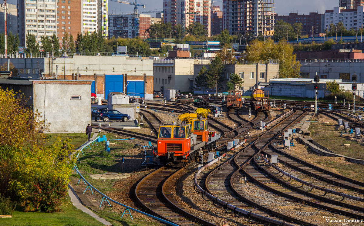 Diesel service vehicle ALg-056 at Yeltsovskoe metro depot of Novosibirsk Metro, Russia